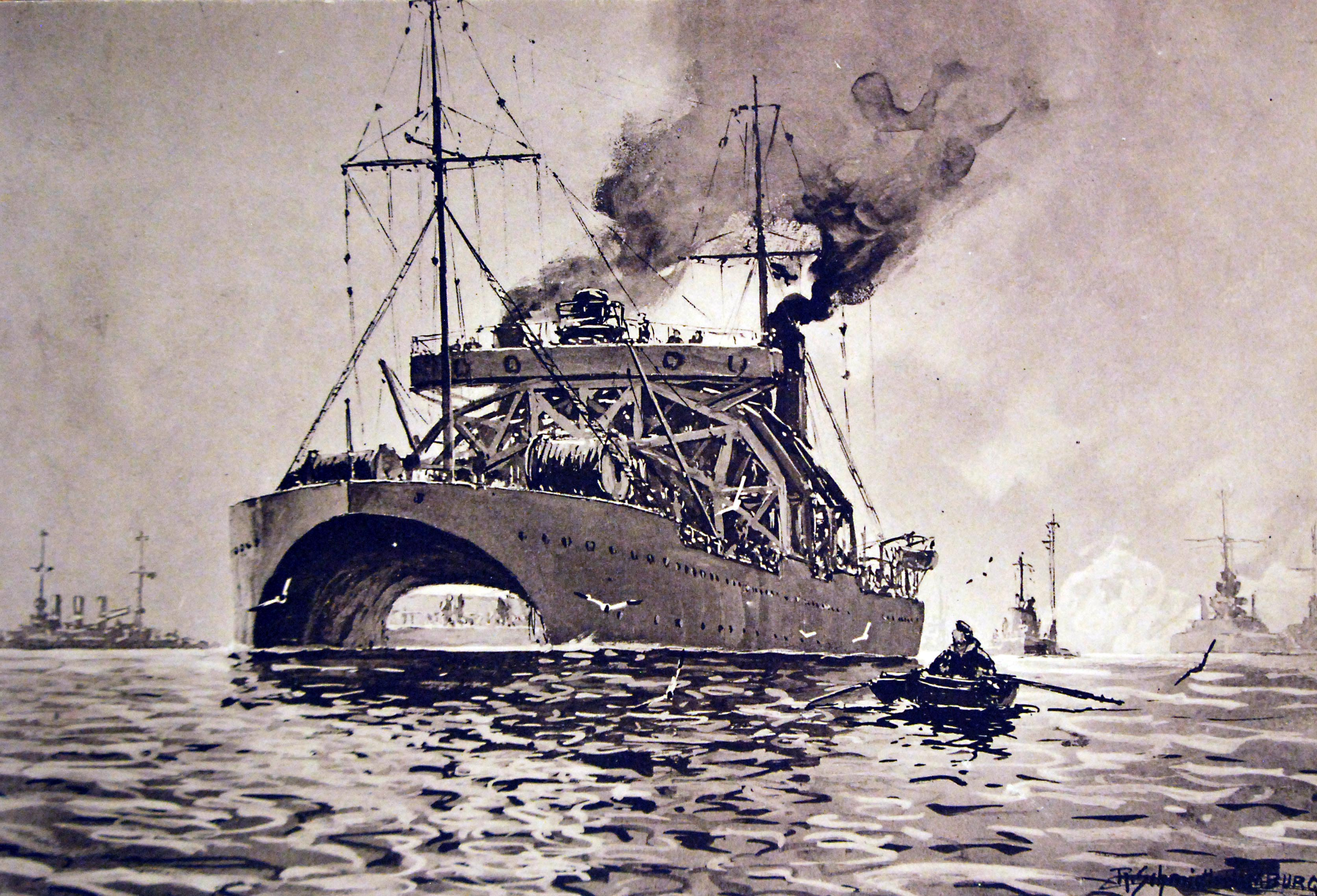 Lot-3614-3: German Activities, WWI. SMS Vulkan, U-Boat salvage tug. Artwork by R. Schmidt, Hamburg. Rehse Collection. Halftone photograph. Courtesy of the Library of Congress. (2016/07/01).